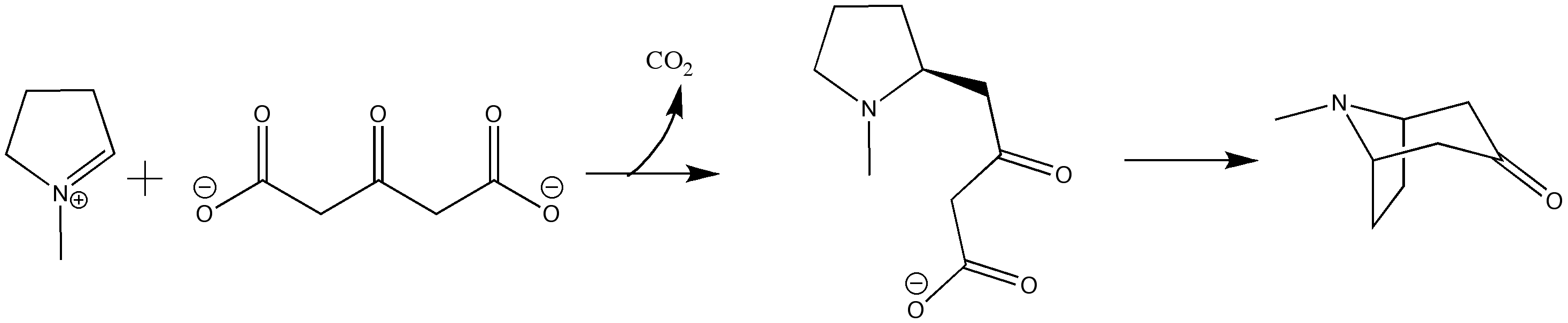 Mechanism of Robinson's biosynthesis of tropane